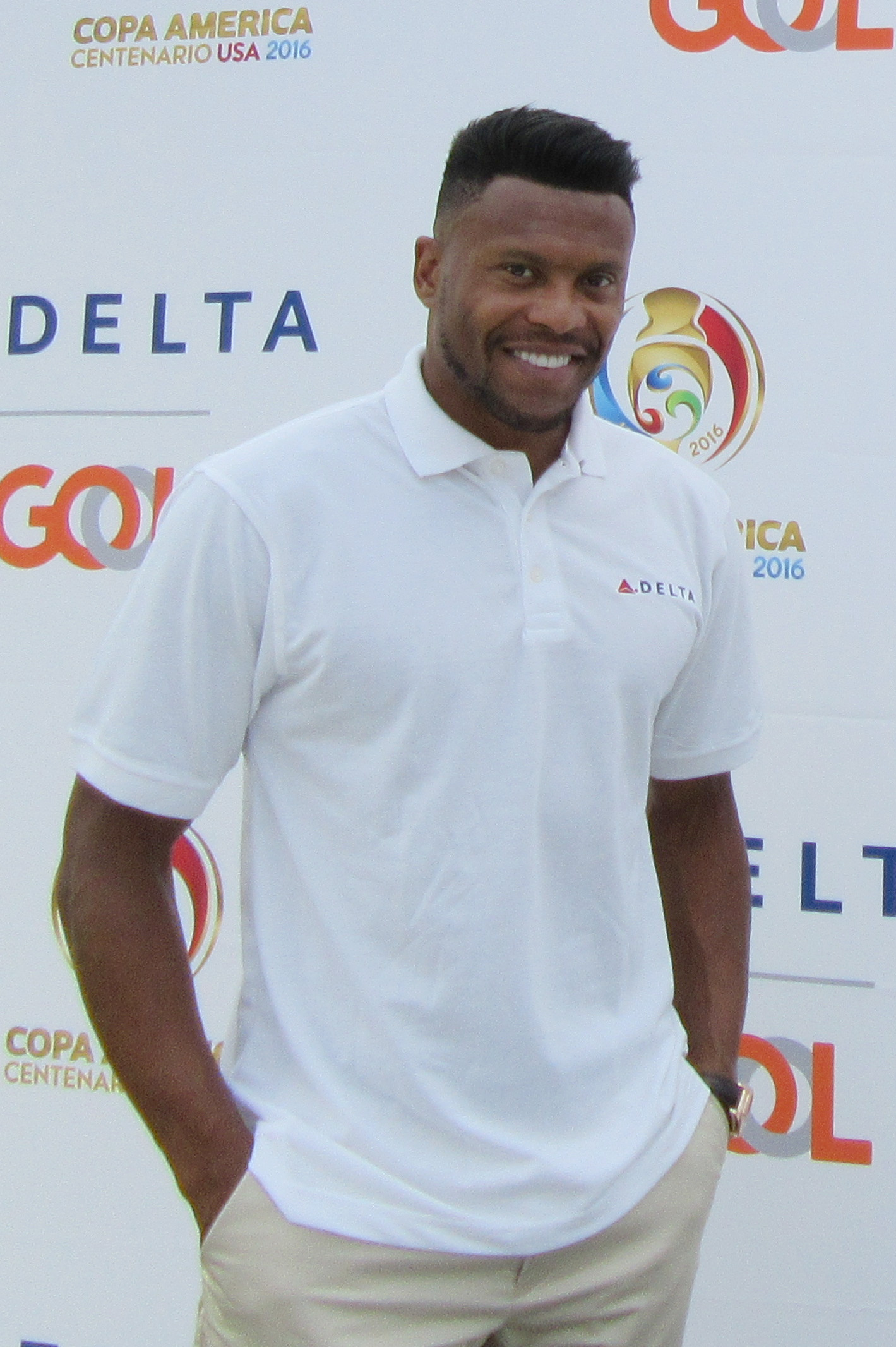 Former Brazilian National Team player, Julio Baptista, made an appearance at the Delta / GOL footprint in Orlando for the Brazil vs Haiti match on June 8. Copa#100 Eliana Ortega|Account Director 5909 Peachtree Dunwoody Rd Suite 600 |Atlanta, GA 30328| USA t 678.587.4974 |m 404.798.1655 | This message and any attached documents contain information from the sender that may be confidential and/or privileged. If you are not the intended recipient please notify the sender immediately by reply e-mail and then delete this message. Thank you. (A) This message contains information which may be confidential and privileged. Unless you are the intended recipient (or authorized to receive this message for the intended recipient), you may not use, copy, disseminate or disclose to anyone the message or any information contained in the message. If you have received the message in error, please advise the sender by reply e-mail, and delete the message. Thank you very much.